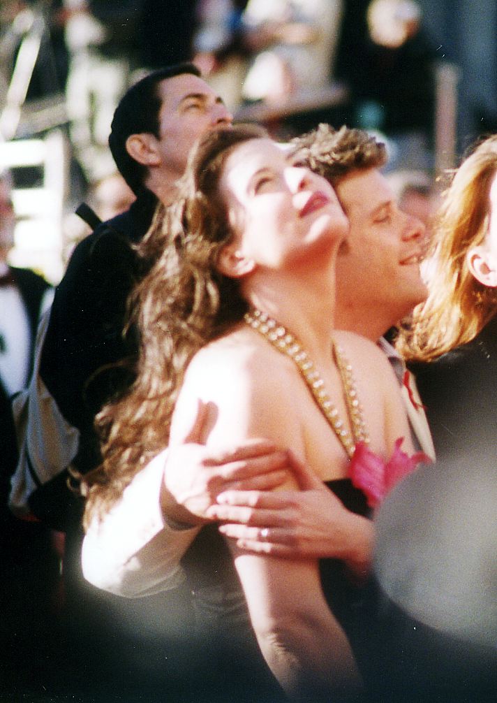 Liv Tyler and Sean Astin, Return of the King world premiere, Wellington